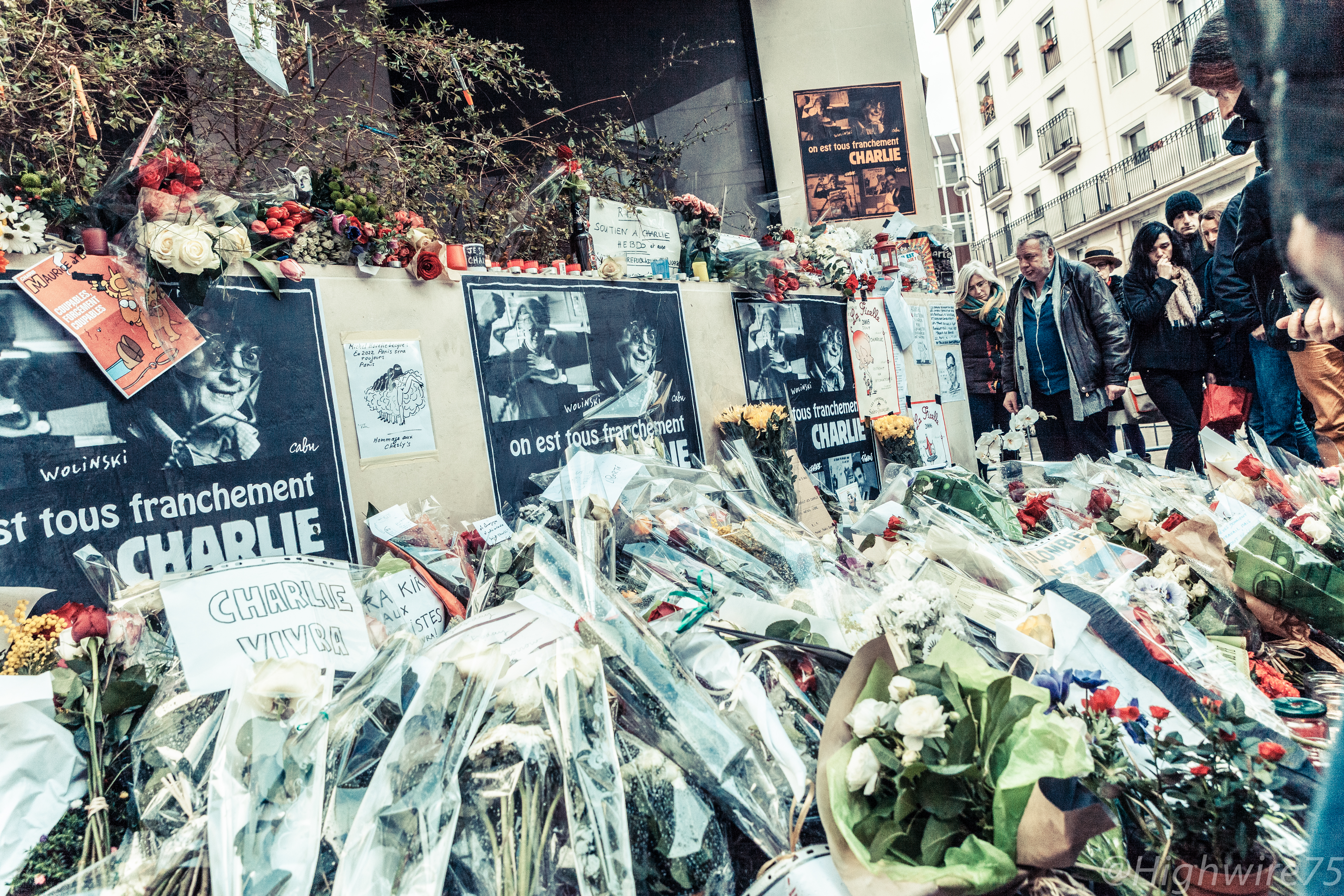 Rue Nicolas-Appert, Paris, one day after the Charlie Hebdo shooting.